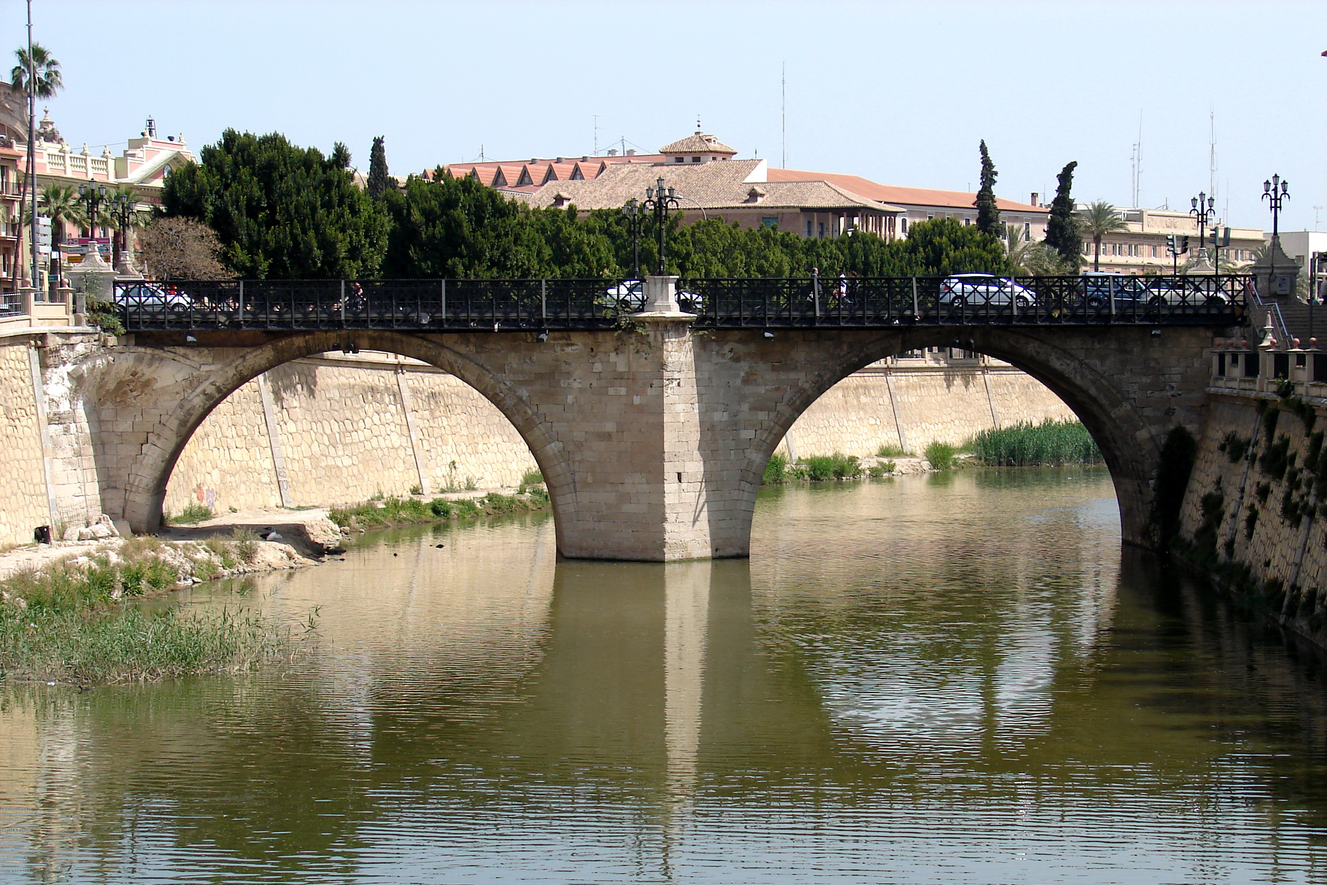 El puente de los Peligros o puente Viejo es un puente de piedra en arco sobre el río Segura, finalizado en 1742 y situado en la ciudad de Murcia (Región de Murcia, España).